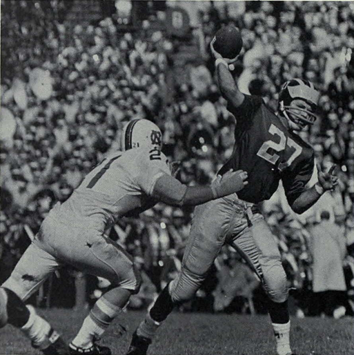 Photograph of Dick Vidmer (No. 27)